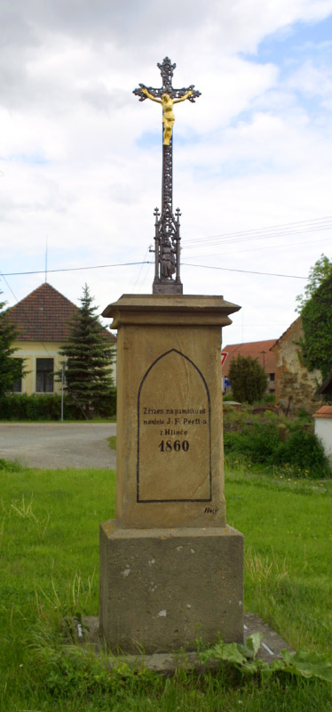 Memorial cross from 1860 in Hlince.